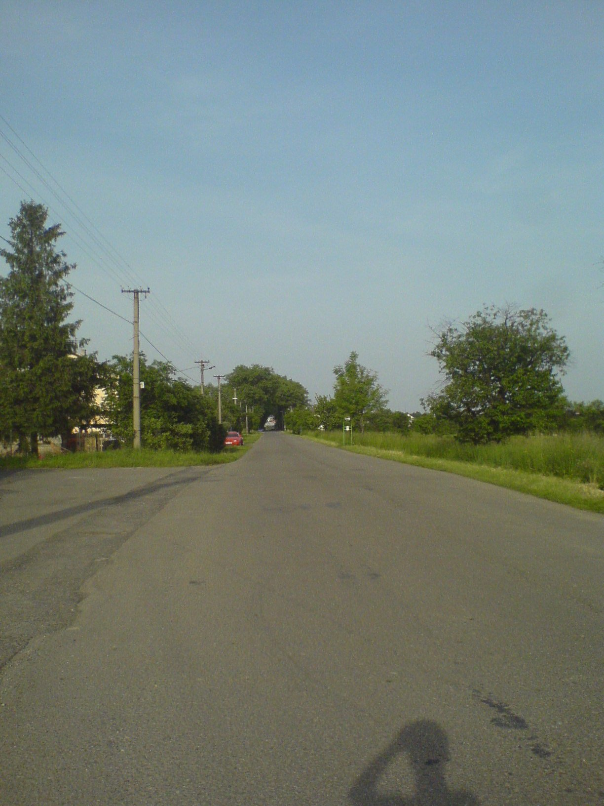 Nejdelší místní komunikace v Šenově, ulice Škrbeňská v místní části Škrbeň.